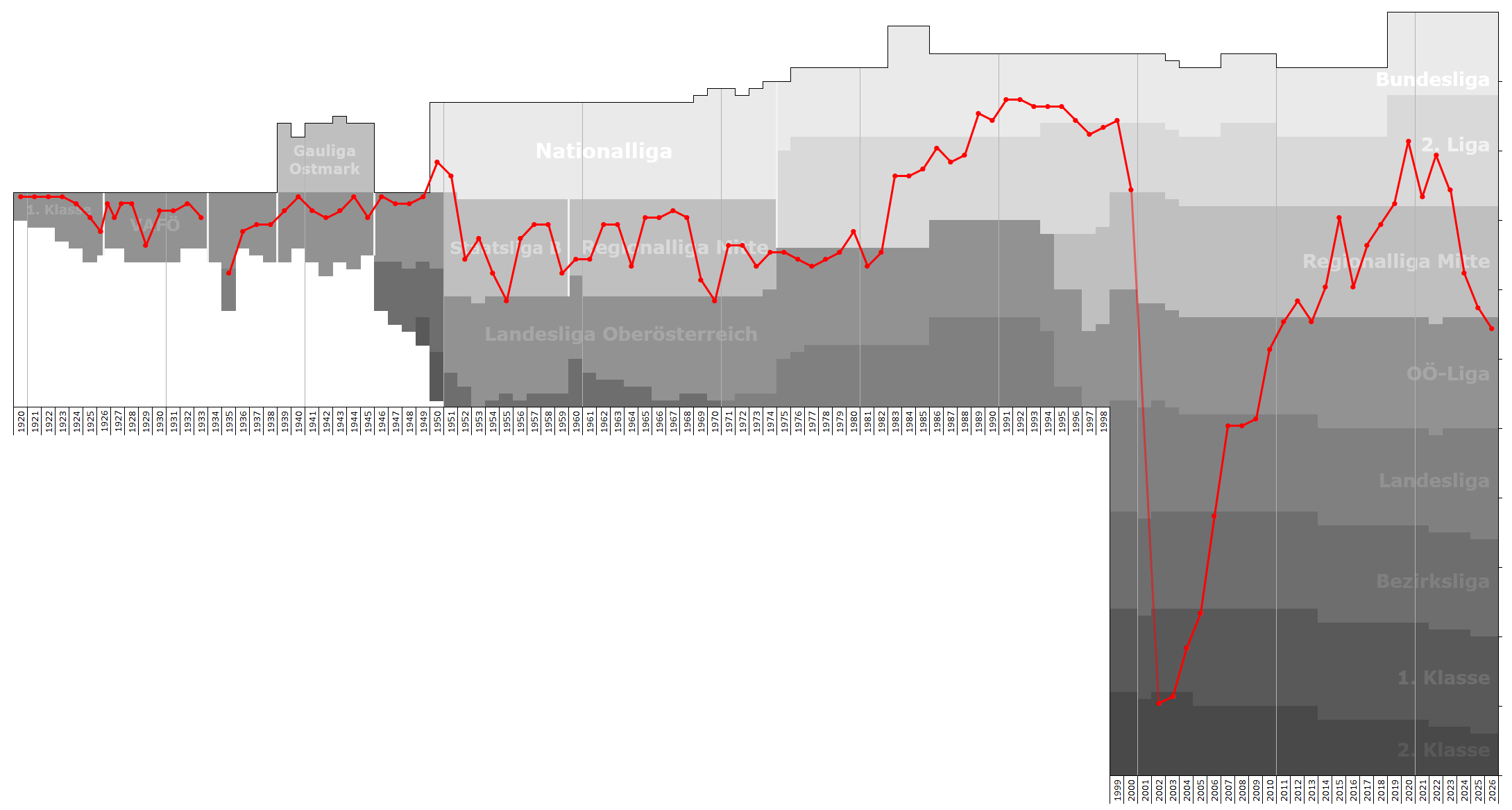 Chart of end-season table positions of Vorwärts Steyr in the Austrian football league system. Data source: RSSSF, , regiowiki.at, ofv.at, wikipedia